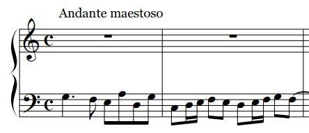 Fantasy No. 1 with Fugue (Mozart) Public Domain.